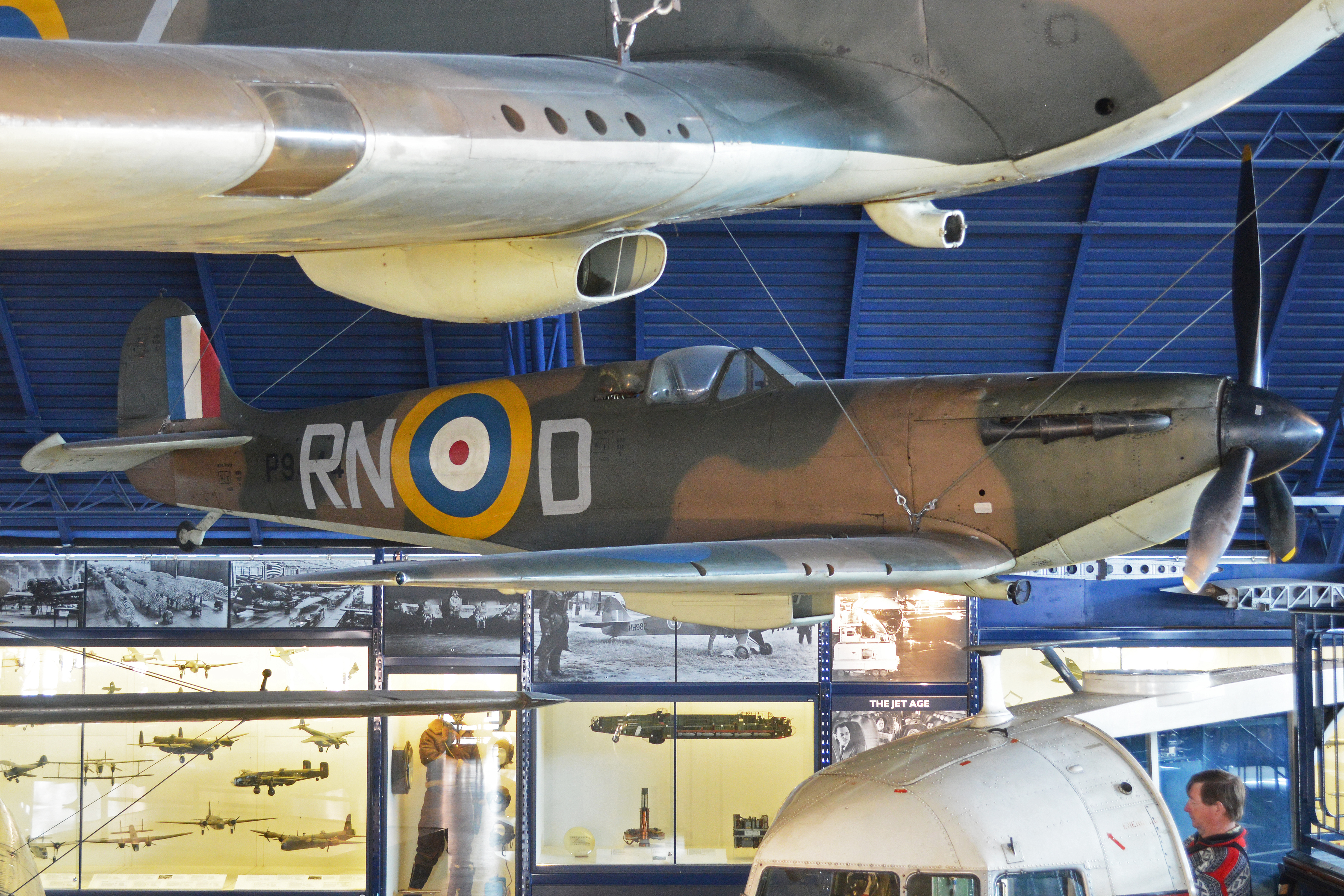 c/n 6S.30613. First flew 2nd April 1940, it was operational with 72sqn during the Battle of Britain. Saved by the Air Historical Branch in 1944. After storage, and appearing in the background of the 1952 movie ‘Angels One Five’, it joined the Science Museum in 1954. It is on display in the ‘Flight’ Hall wearing genuine 72sqn markings. Science Museum, South Kensington, London. 16-6-2015